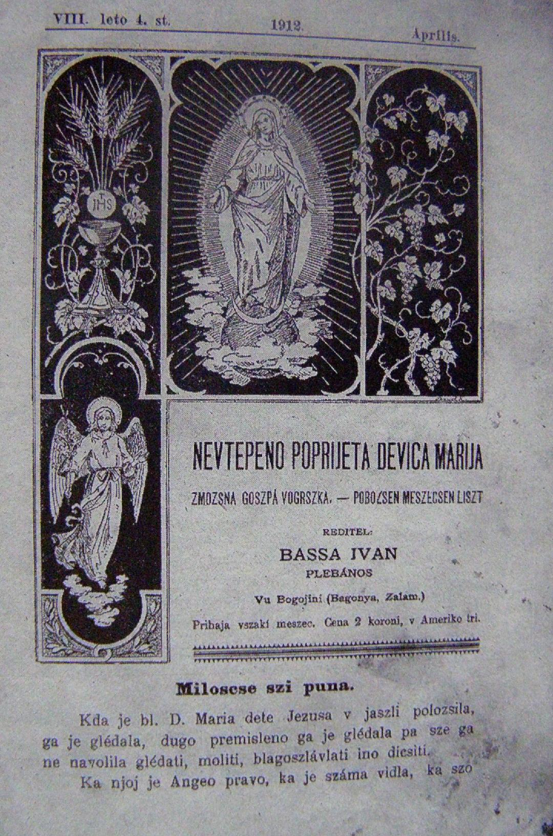 The Marijin list in 1912